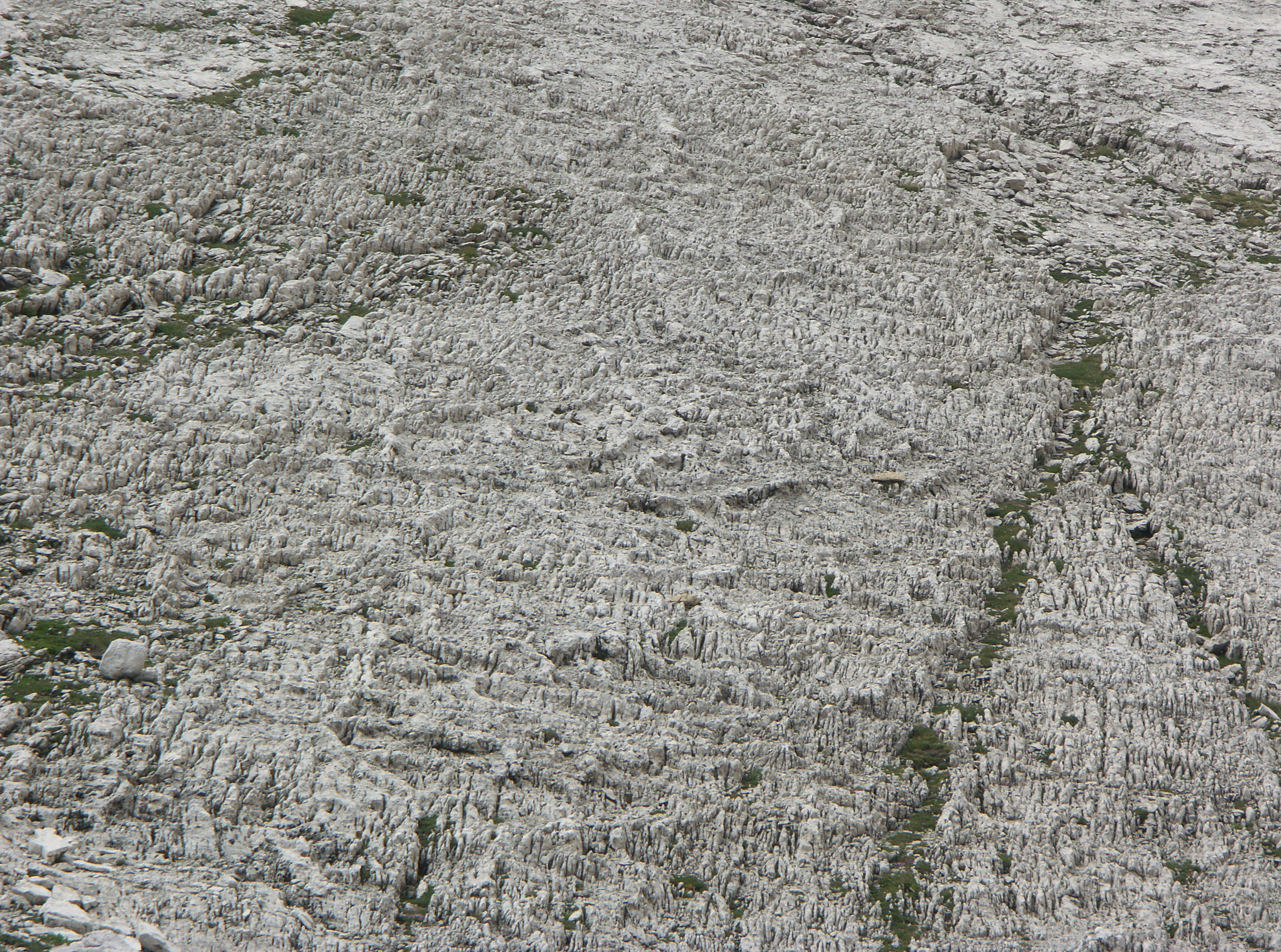 Limstone pavement (surface Karst) at Formin-Pass (2.462 m), west of Cima d'Ambizzola, Dolomites, Italy.